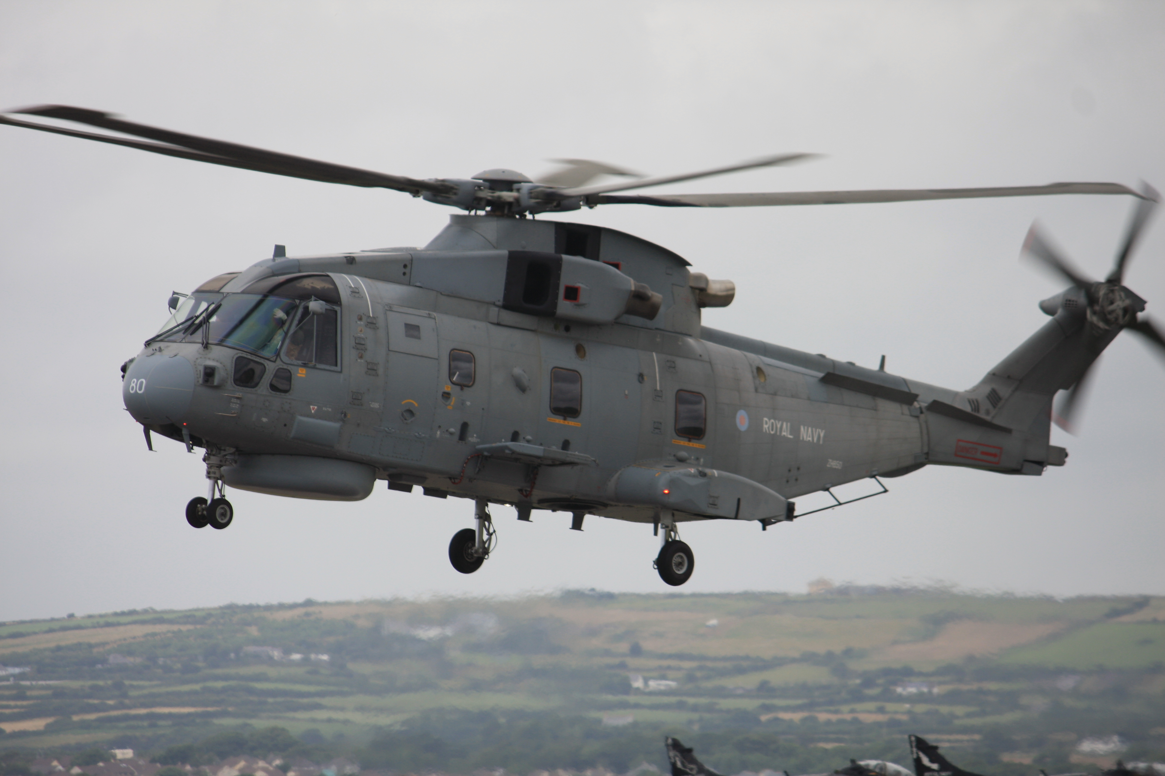 Culdrose (EGDR) UK - England, July 24 2013.